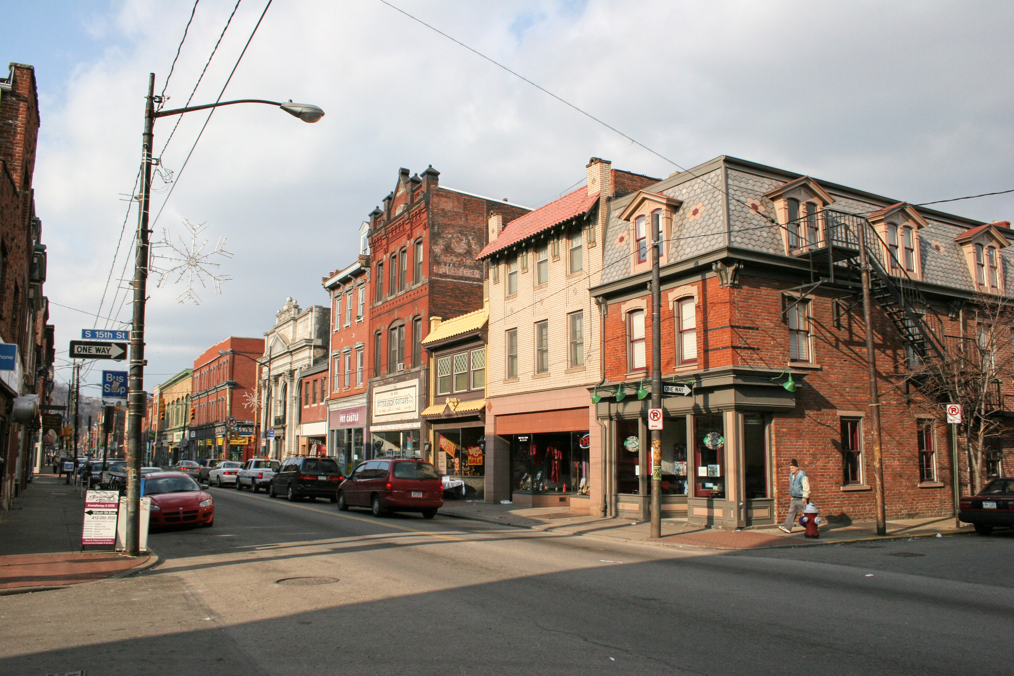 View of Southside, at Carson and 15th streets, Pittsburgh, Pennsylvania, United States.